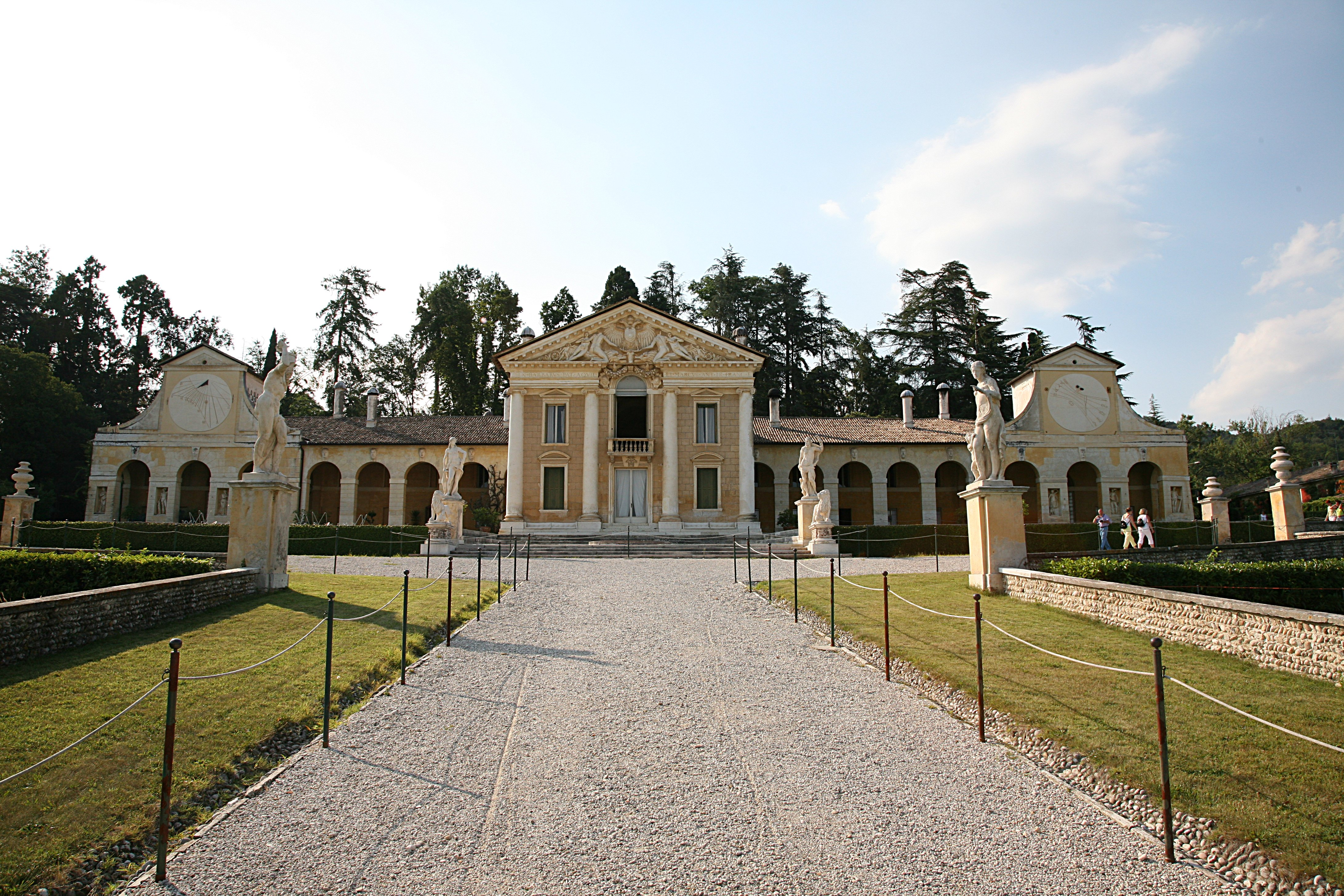 Villa Barbaro at Maser by Andrea Palladio.